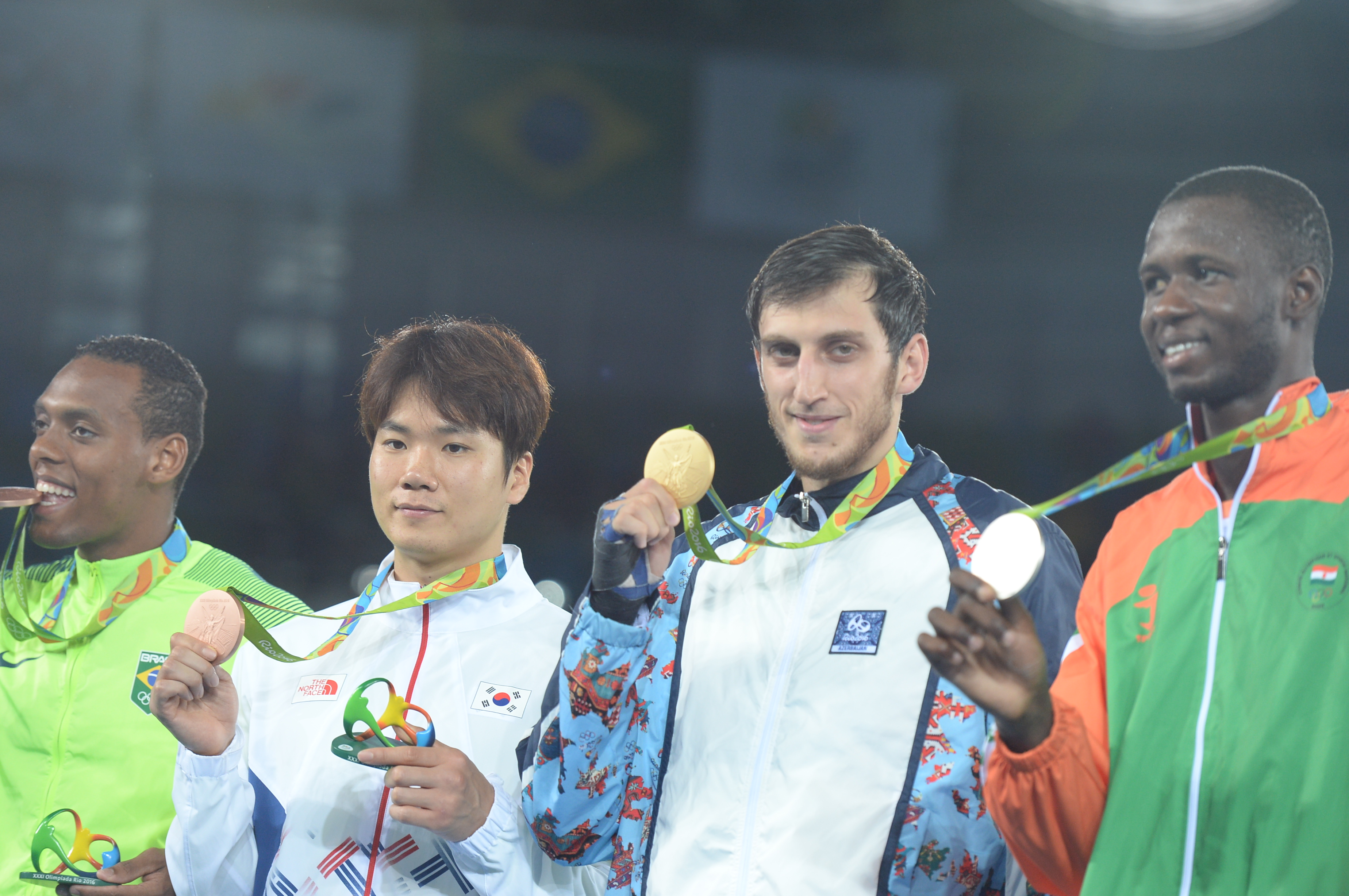 Taekwondo at the 2016 Summer Olympics – Men's +80 kg awarding ceremony